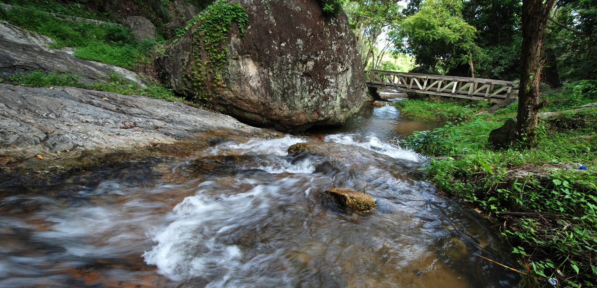 Nam tok huai kaeo (Thai script: น้ำตกห้วยแก้ว, lit. "Crystal Creek Waterfall") lies just beyond the outskirts of the city of Chiang Mai at the foot of Doi Suthep. The waterfall could be called Chiang Mai's city park. The waterfall consists of a series of smaller falls and pools. This image was made during the rainy season at the middle reaches of the waterfall.